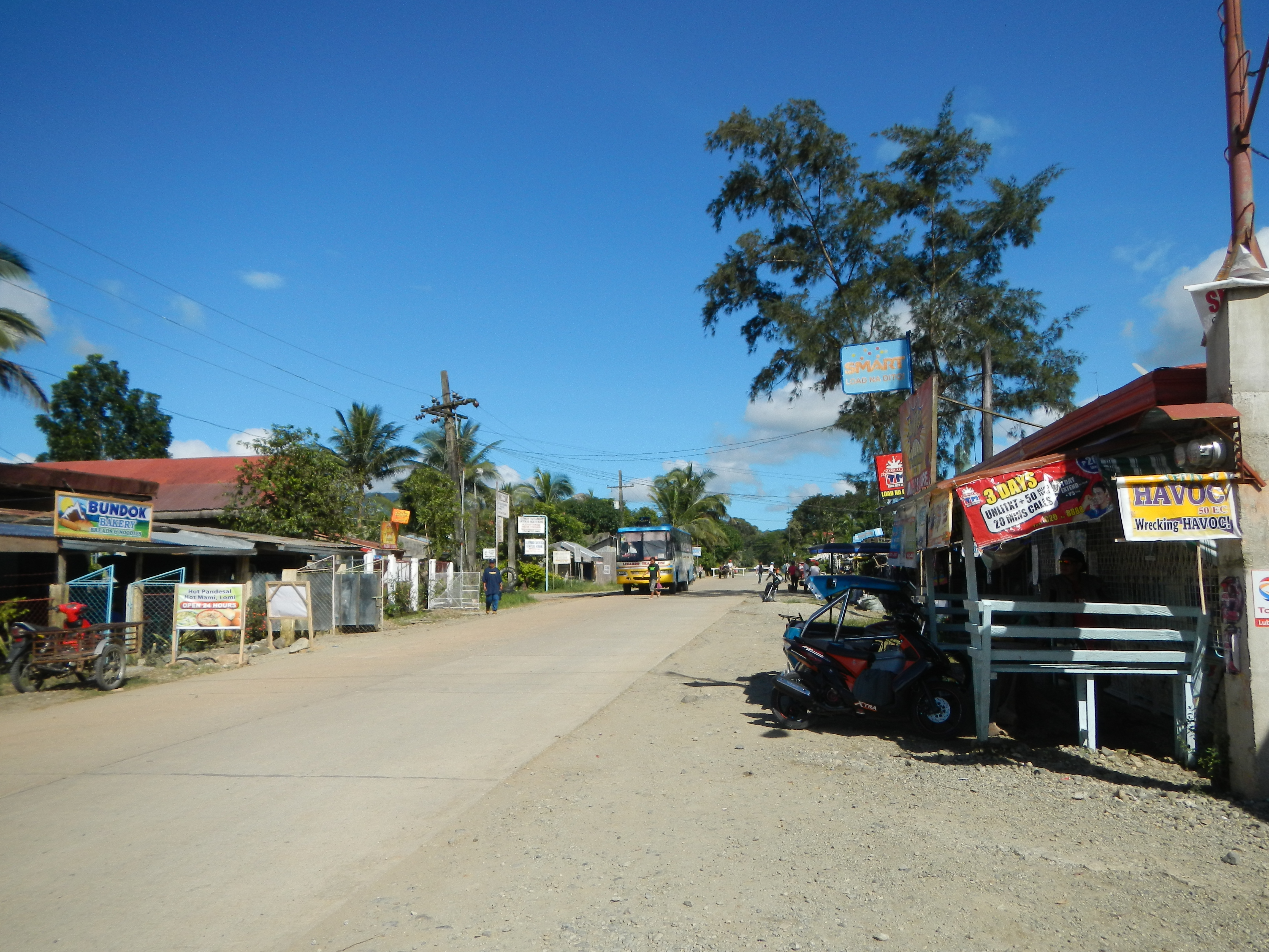 Upload Wizard (panorama, general description of landmarks, interesting points, church, town hall, offices) photos of the scenery, the greens, hills, mountains) - Alfonso Castañeda Town Proper - Bebot's Restaurant at the back of Petron Gas Station, Bebot's Convenience Store, Maria Aurora Express Bus, Bundok Bakery, the chains of stores, talipapa, [1]) - Alfonso Castañeda, Nueva Vizcaya [2] (a 4th class municipality in the province of Nueva Vizcaya, [3]Philippines; latest census, population of 6,655 people in 873 households; politically subdivided into 6 barangays; [4] Coordinates: 15°47'45"N 121°18'11"E - the waters from the Canili-Diayo Dam, Maria Aurora, Aurora flows through this river, bridge[5] - Alfonso Castañeda, Nueva Vizcaya municipality, third-level administrative division Coordinates: 15°53'57"N 121°20'9"E Map [6] [7] [8] Geographical location: Aurora, Region 4, Philippines, Asia Geographical coordinates: 15° 48' 13" North, 121° 18' 22" East) - and - Cabanatuan City Central Terminal.[9].